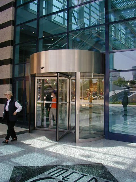 International Revolving Door in Turkey(made in USA)